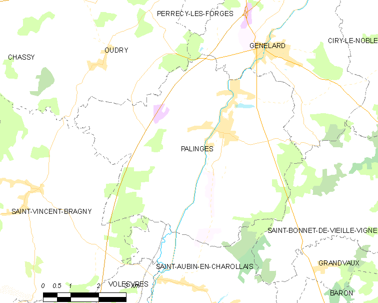 Map of French municipality